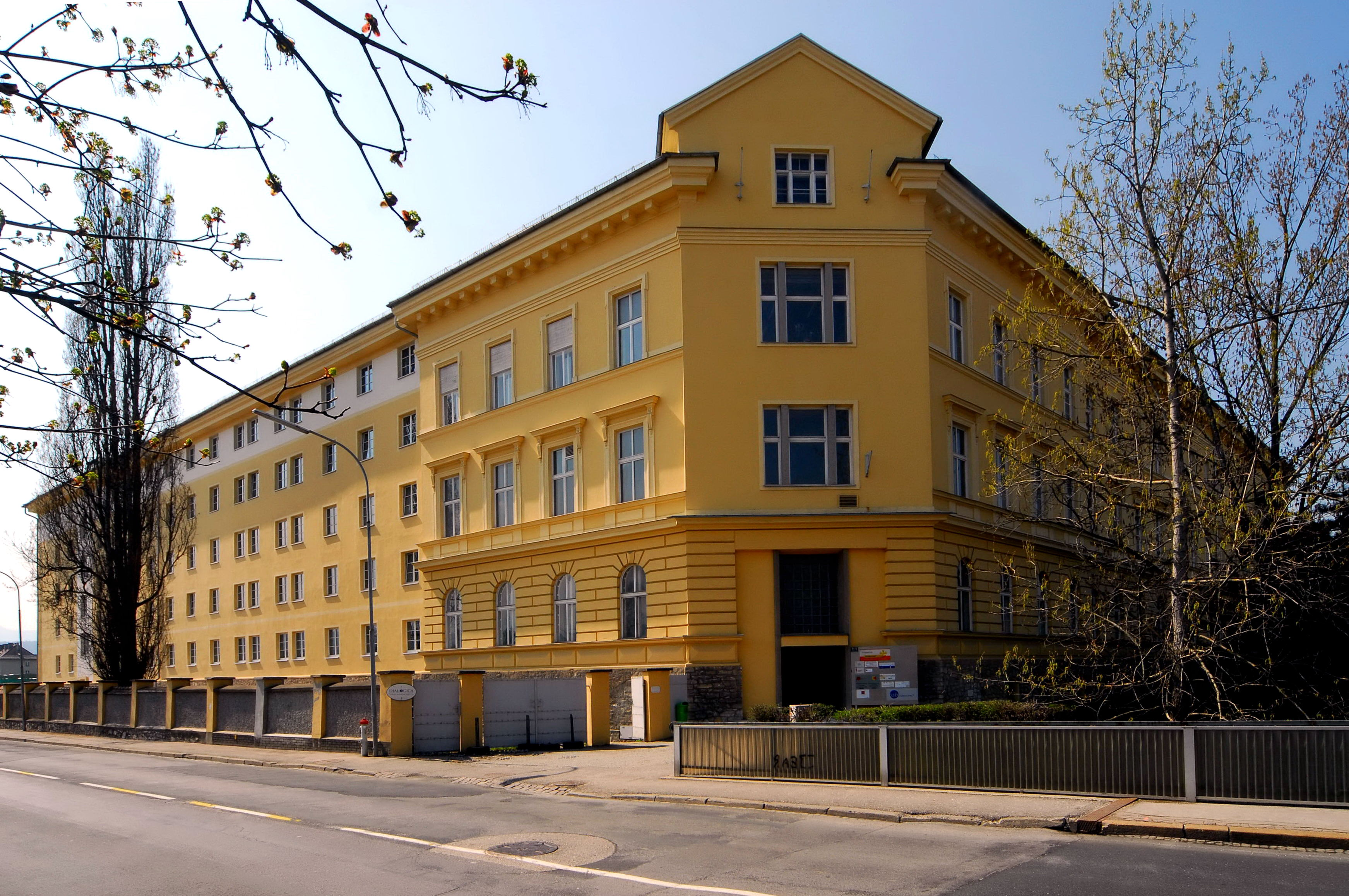 Boys` seminar and seminary on the Rudolfsbahnguertel #2 and the Voelkermarkterstrasse #36 in the 6th district "Völkermarkter Vorstadt", city Klagenfurt, Carinthia, Austria, EU